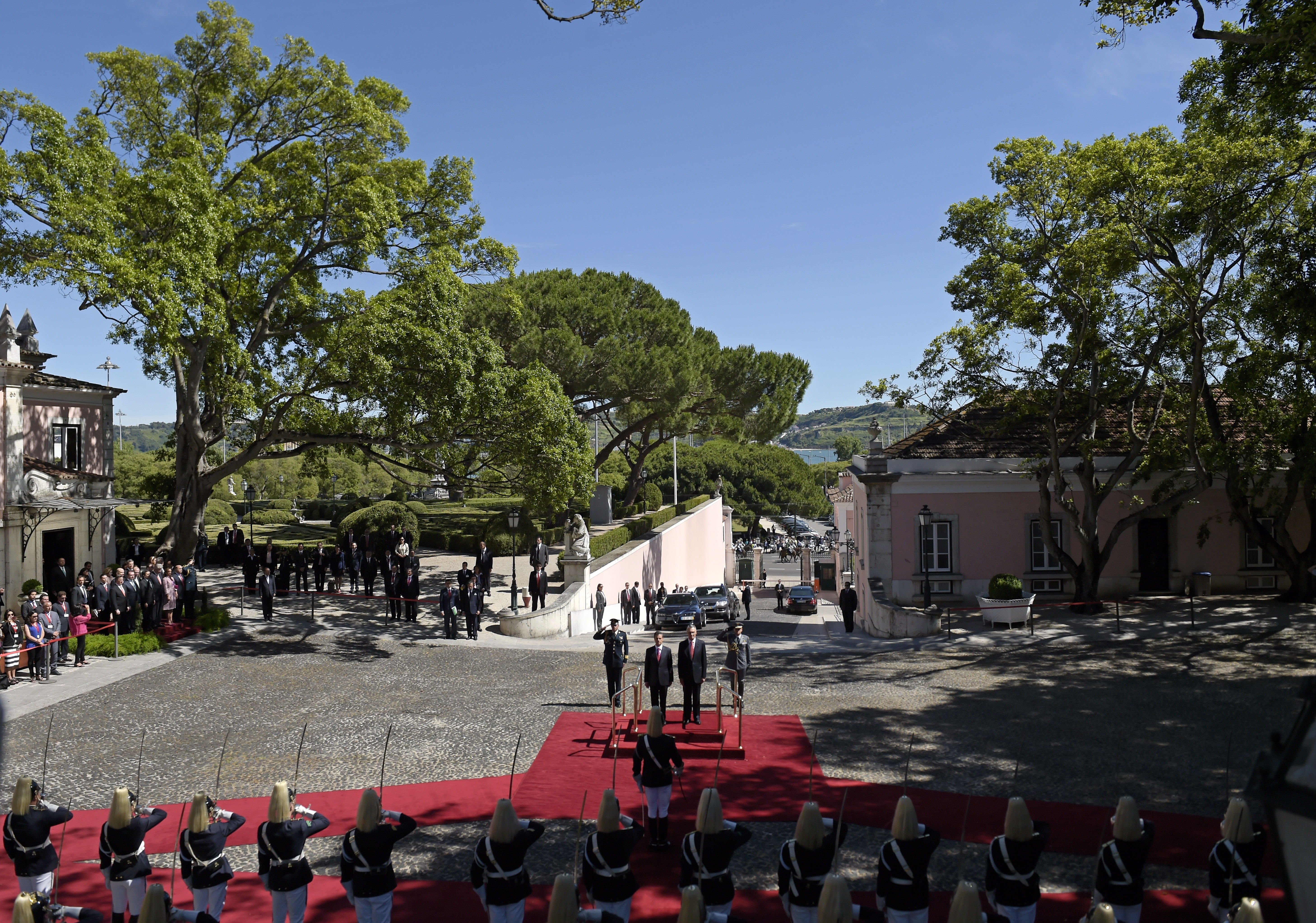 Durante a visita de estado do Presidente do Mexico a Portugal, 2014.